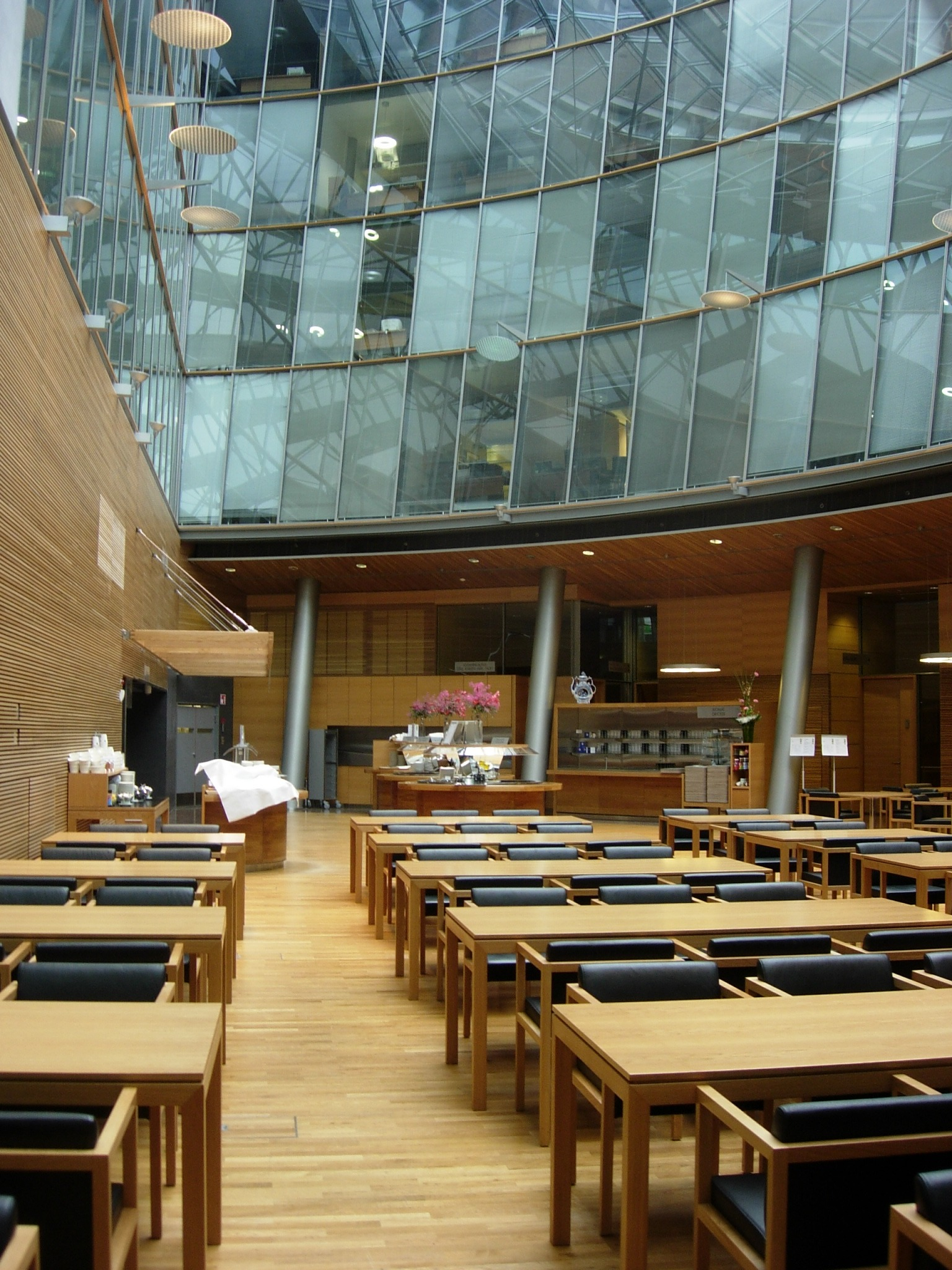 The cantine at the annex building of Eduskuntatalo